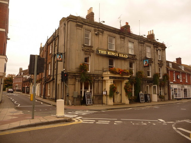 Wimborne Minster: the King’s Head A large, imposing hotel facing onto The Square from its western side. West Street is to the left.